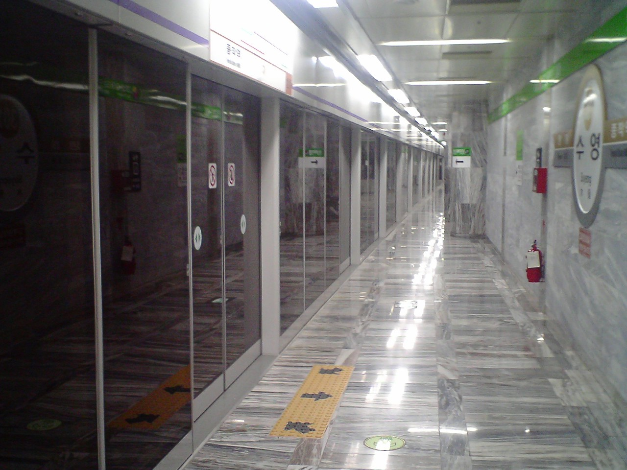 Suyeong Station platform in Busan Subway